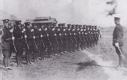 Military Training for Policemen in Karafuto